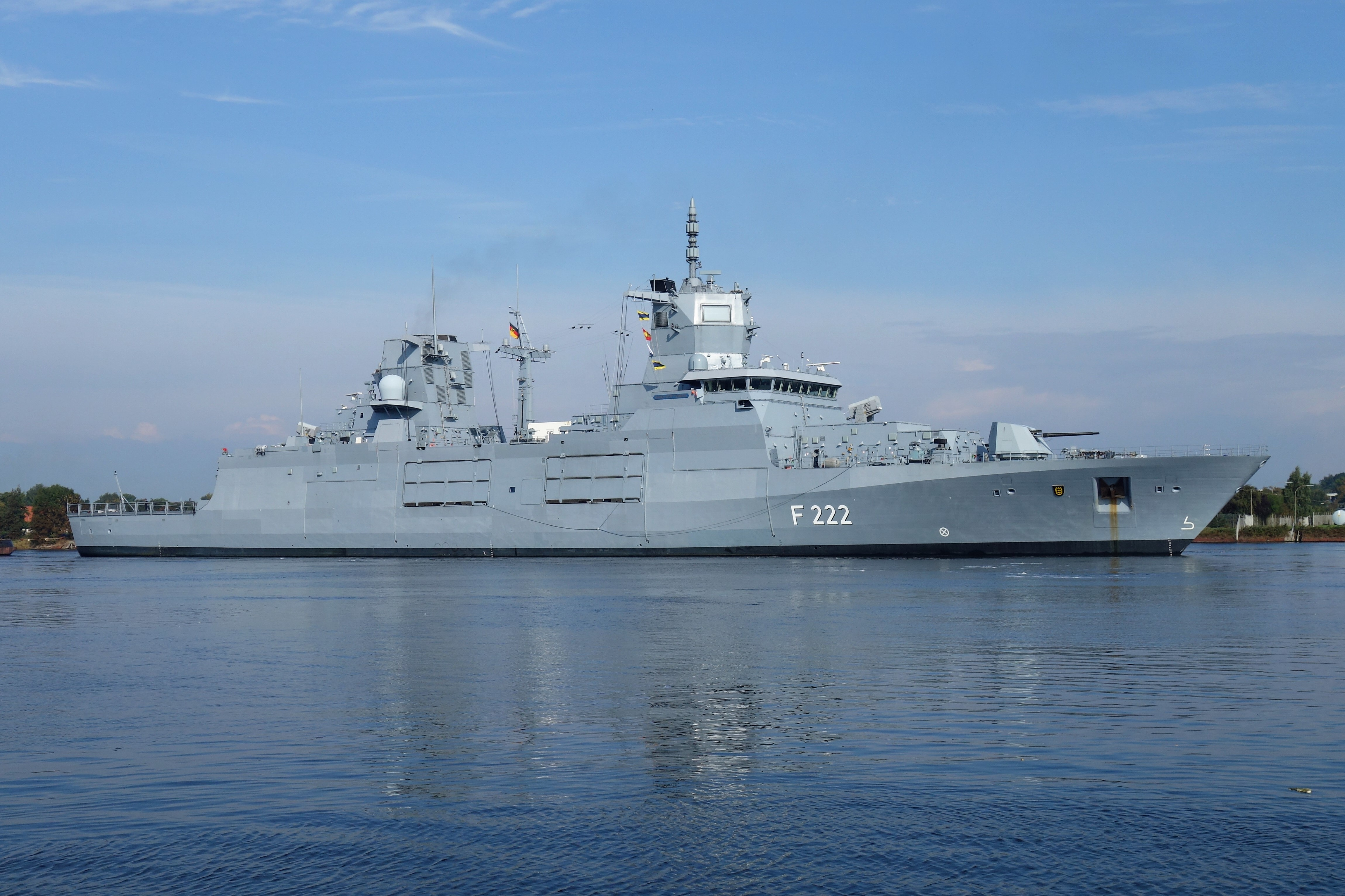 Still not yet commissioned frigate Baden-Württemberg at the deperming range in Wilhelmshaven